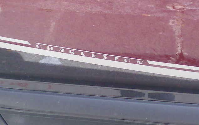 Citroën C3 Pluriel Charleston logo